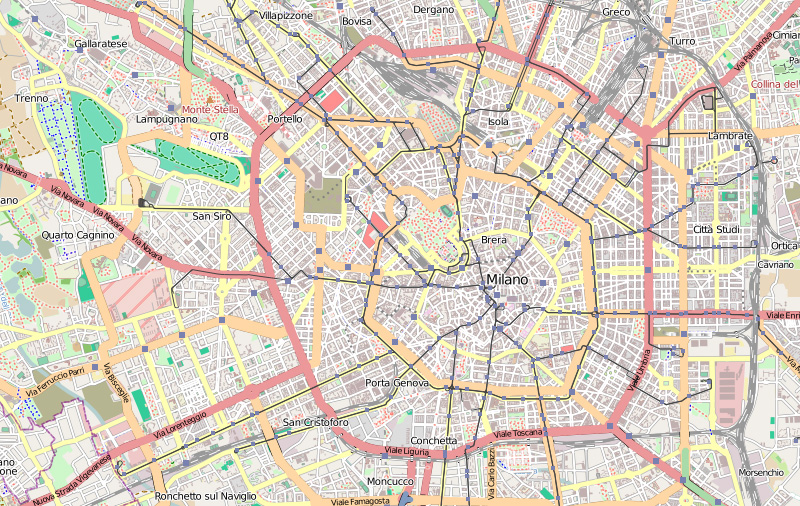 Map of central Milan, Italy